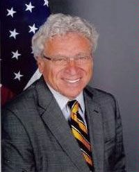 The US diplomat Samuel Louis Kaplan. As of 2009, U.S. ambassador to Morocco.